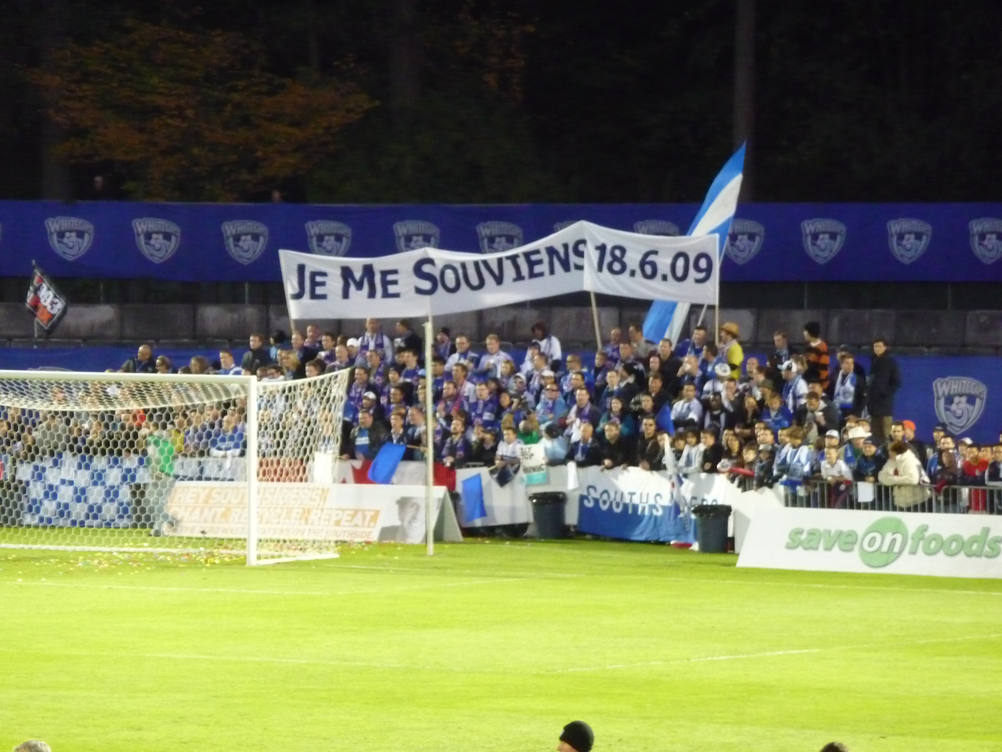 The Southsiders, a Vancouver Whitecaps supporters group, at the first leg of the 2009 USL First Division championship, Swangard Stadium, Burnaby, British Columbia.